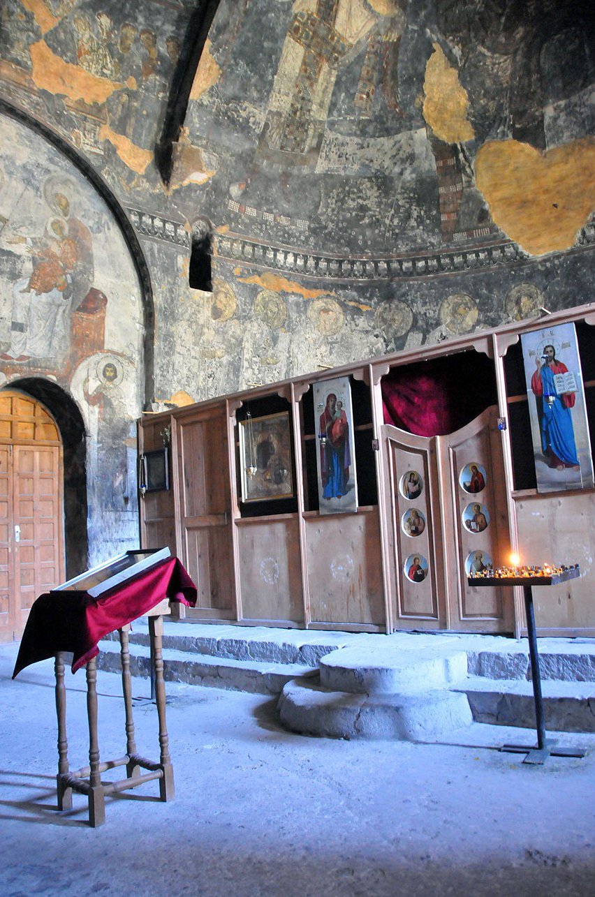 Vardzia Cave City, Georgia